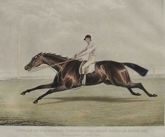 Coronation, winner of the 1841 Epsom Derby. Hand coloured aquatint. dated 1841, by Francis Calcraft Turner (c.1782-1846). Artist dead for 166 years